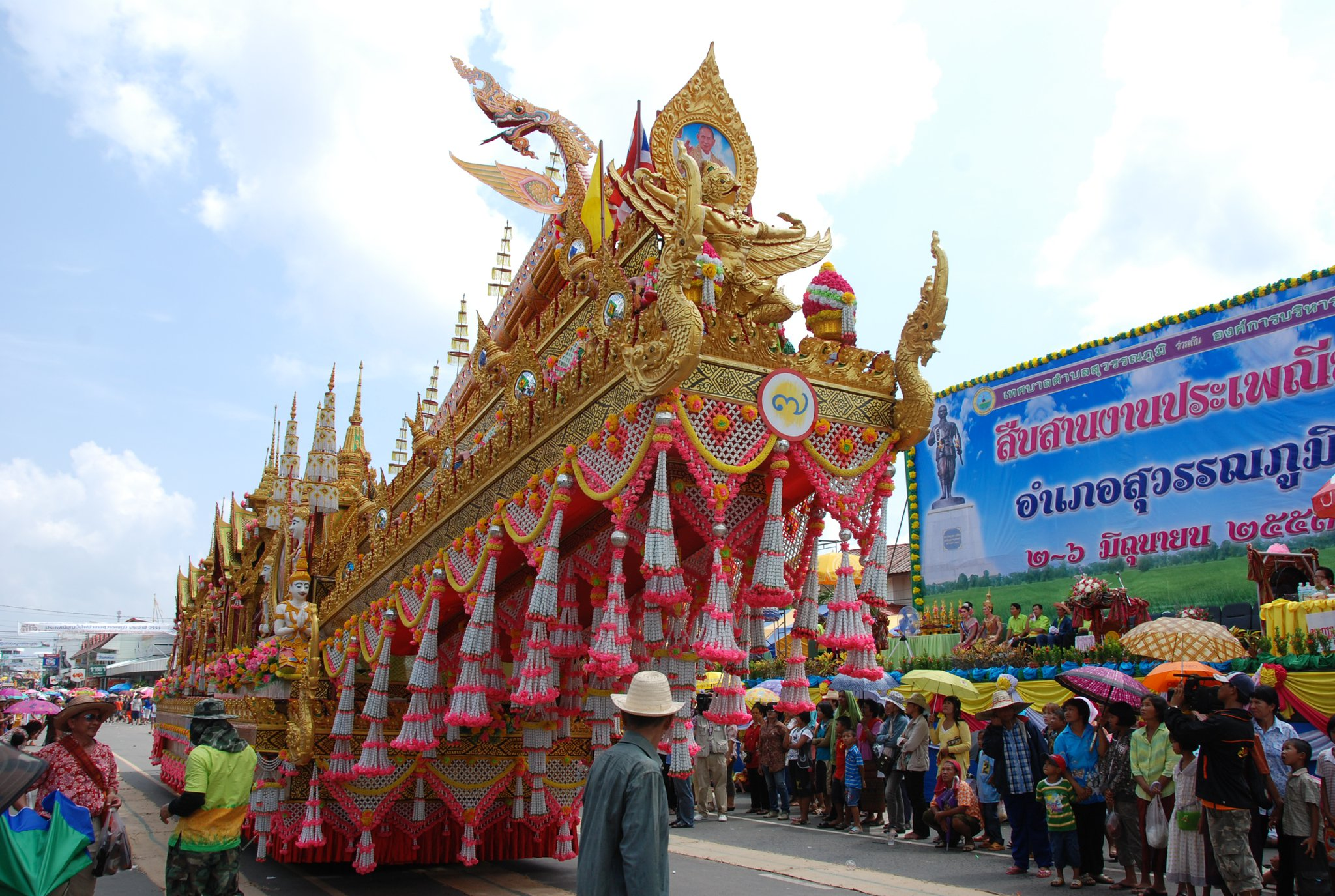 Bungfai Festival Photo in Suwannaphume , Roi ET